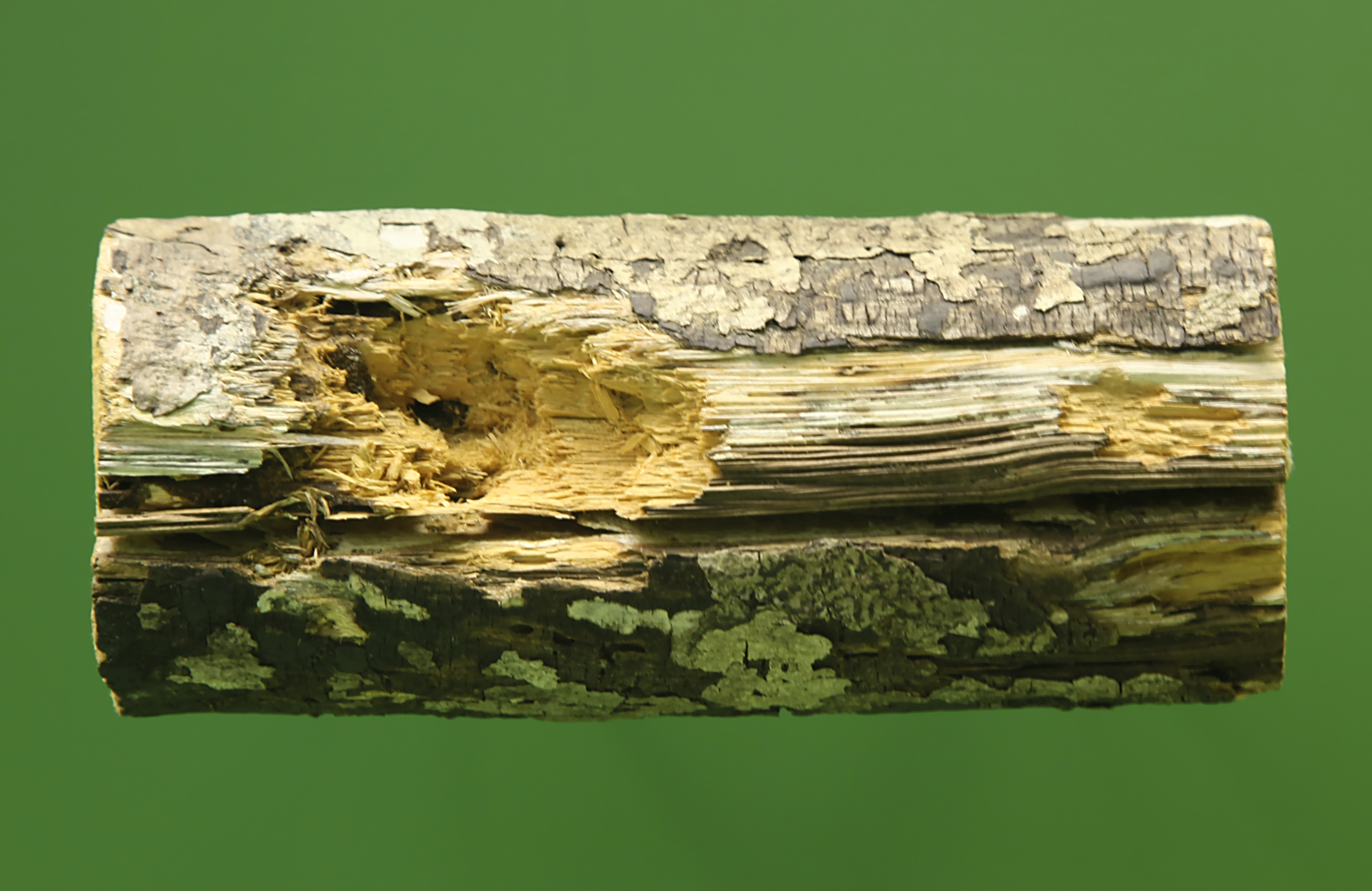 Limb gnawed by an aye-aye (Daubentonia madagascariensis)